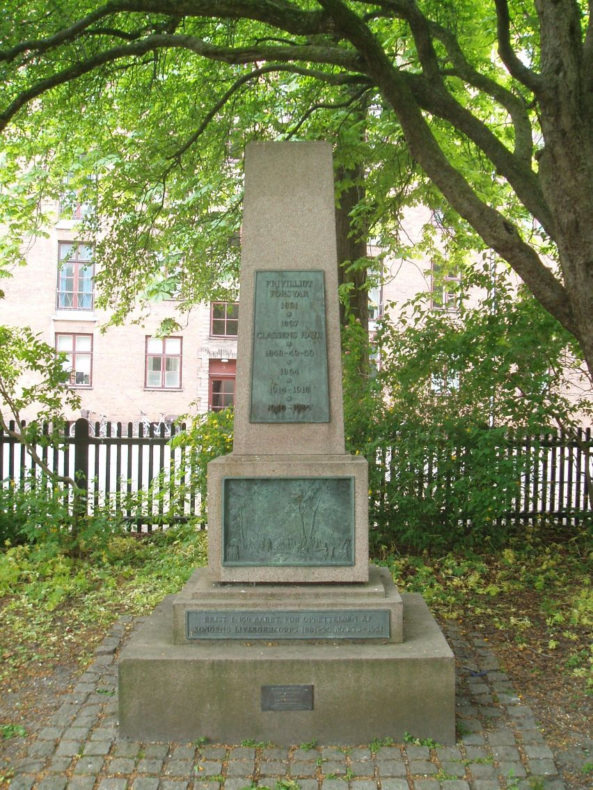 Monument for Kongens Livjægerkorps erected in Classens Have in Copenhagen